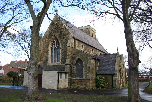 St.Peter's church, Cleethorpes. 1866-7 by prolific Louth architect James Fowler.